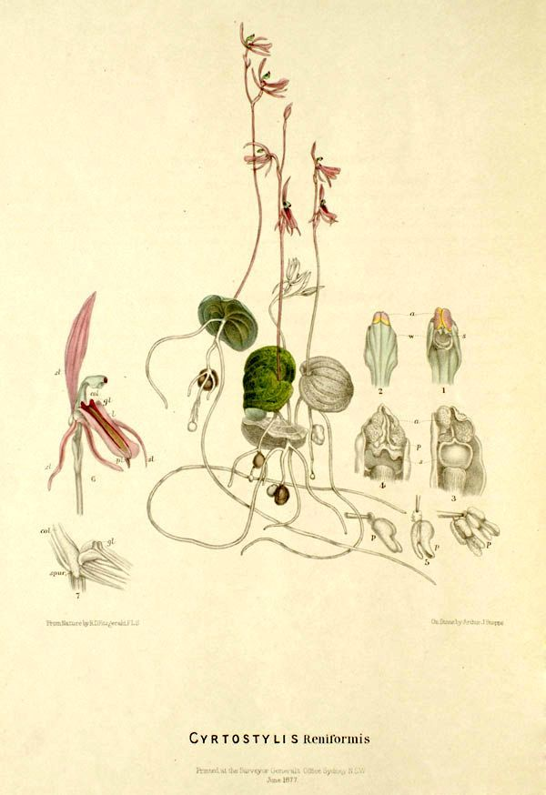 Illustration of Cyrtostylis reniformis